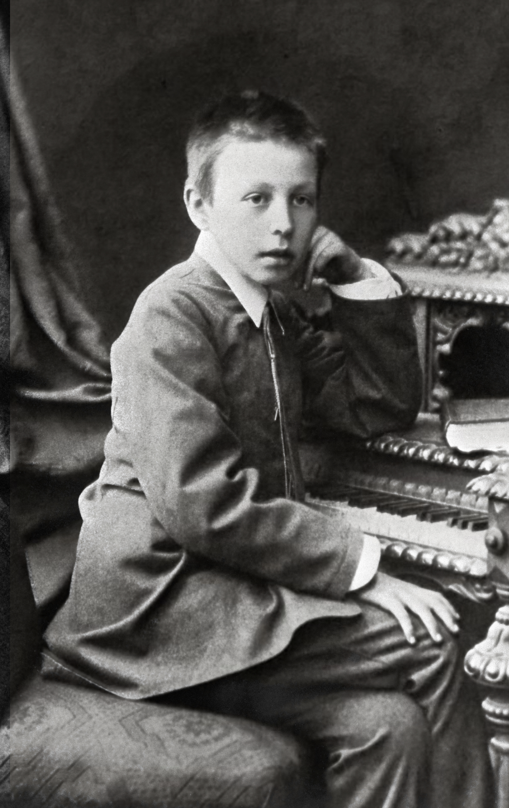 Sergei Rachmaninov at the age of 12